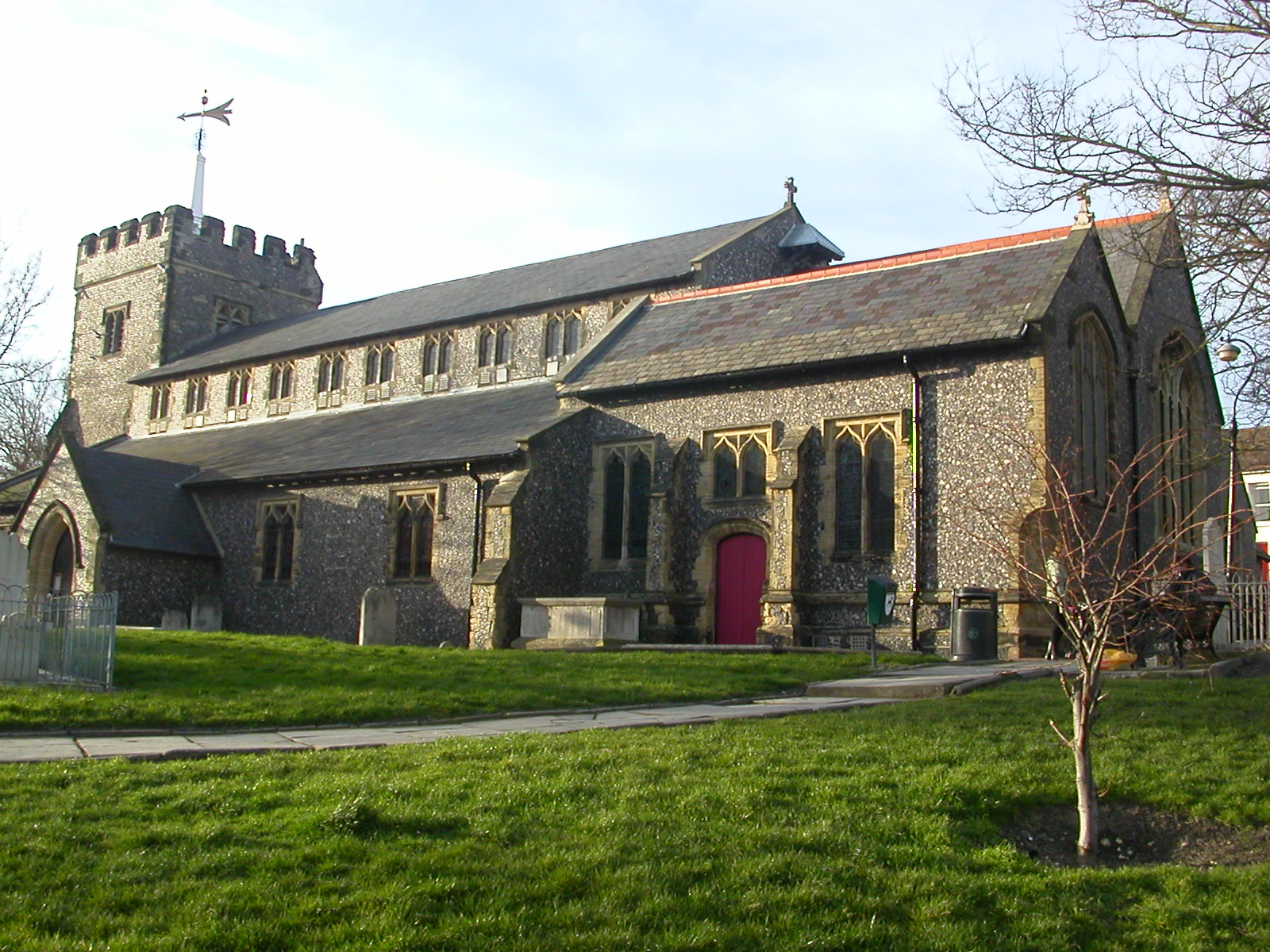 St Nicholas' parish church, Brighton, East Sussex, seen from the southeast on 10 March 2007